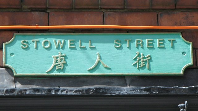 Sign for Stowell Street. See 911776.